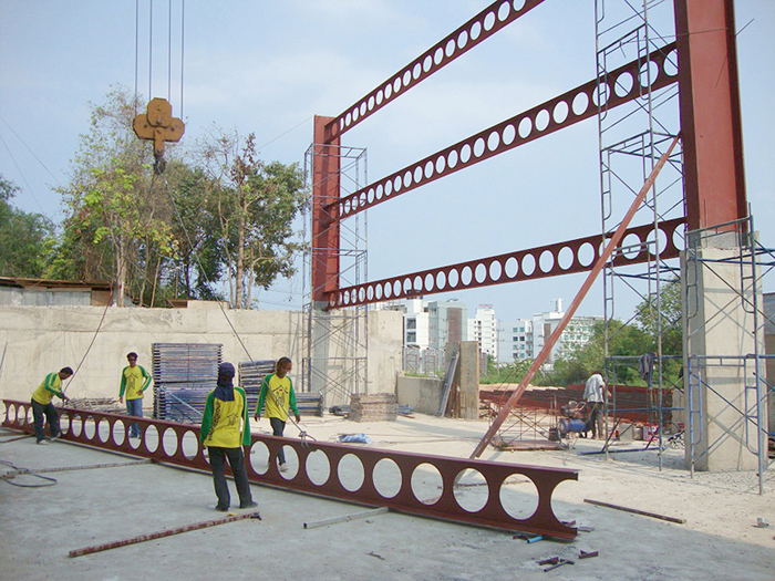 Park Royal 2, design by architect Mario Kleff. Cellular beams or porthole beams are particularly suited to long span building construction